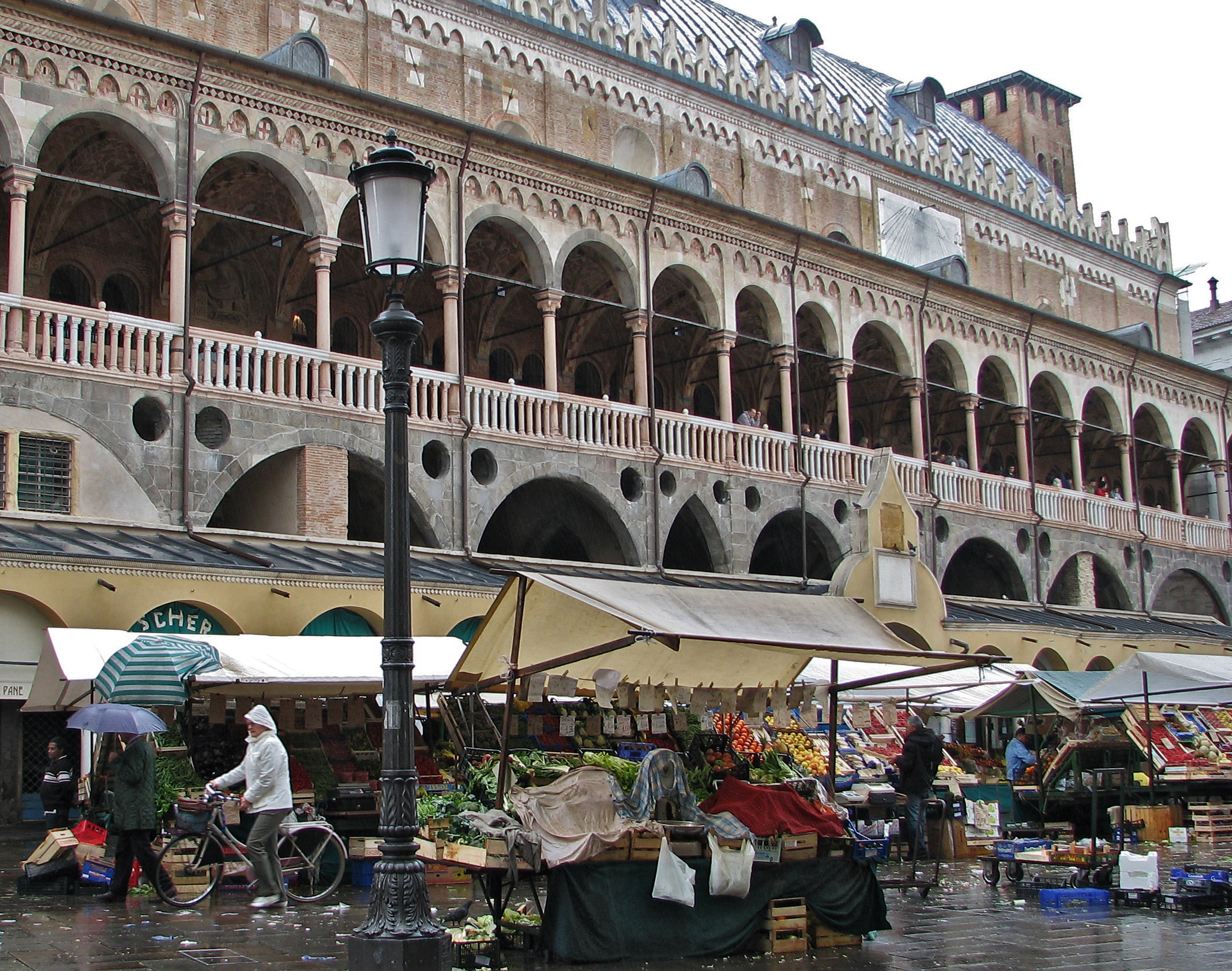 Palazzo della Ragione, Padova, Italy.